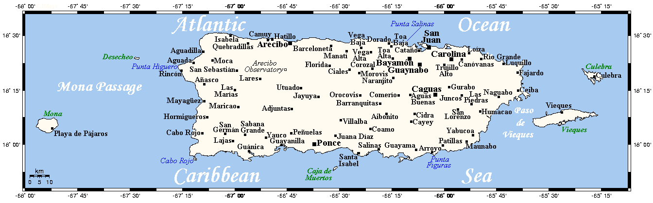 A map showing Puerto Rico's cities and main towns.